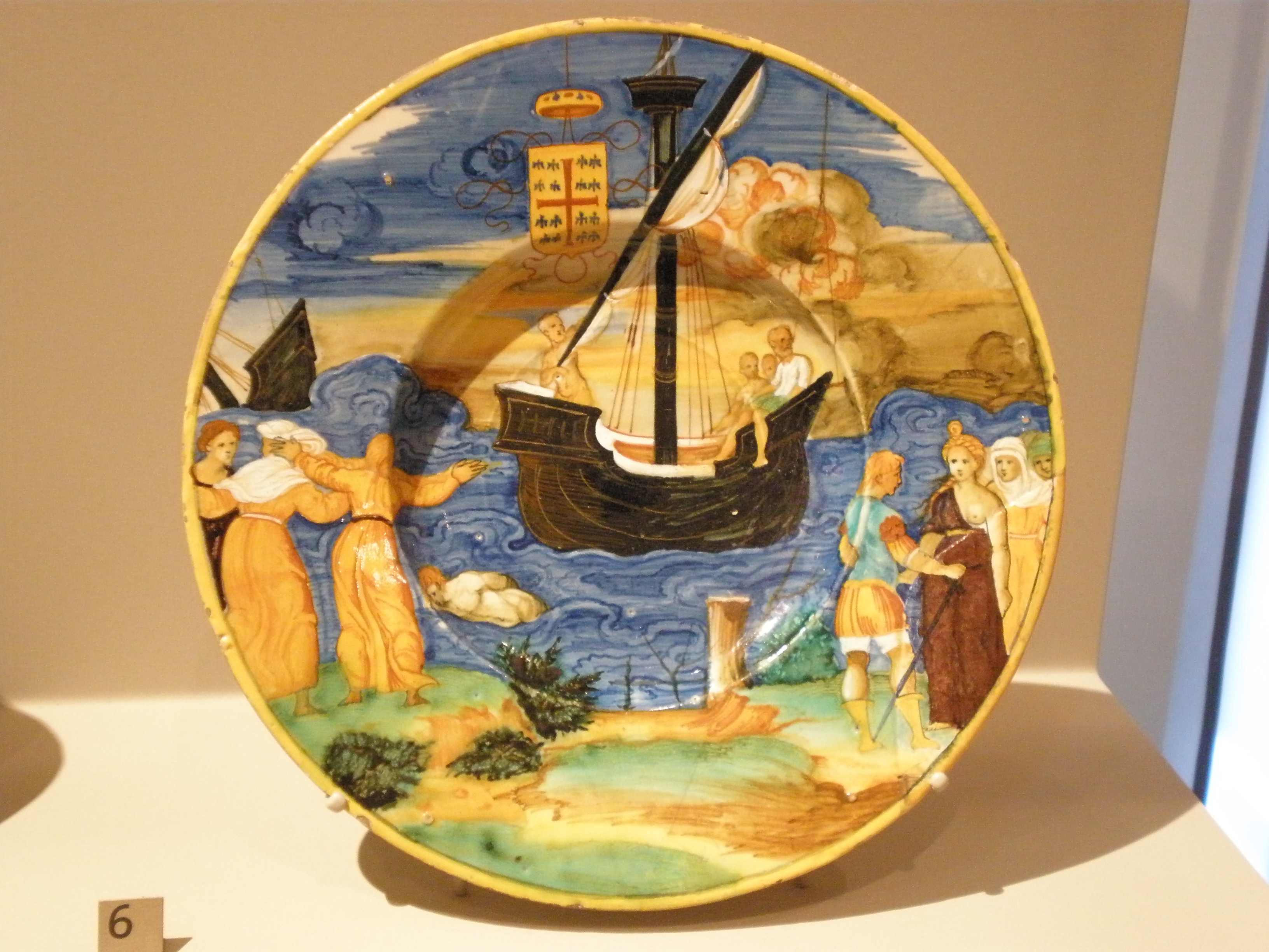 Dish with scenes from the Trojan War 1535 Italy, Urbino Workshop of Guido Durantino (later known as Fontana, died after 1576) Tin-glazed earthenware (maiolica) With the arms of Anne de Montmorency This piece belongs to a now widely dispersed service of istoriato maiolica made in Urbino for the Grand Master of France Anne de Montmorency (1493-1567) in 1535. There around 20 known pieces belonging to this service; plates of different sizes and shapes, candlesticks and a flask. All the pieces depict classical mythology and include Anne de Montmorency coat of arms in a slightly inaccurate rendering. Montmorency was the greatest private art patron of the French Renaissance. No documentation has come to light about the commission of this service, but it is likely that it was a diplomatic gift from Italy to one of the most influential men at the French court. Most of the pieces from the set are inscribed on the back with the name of the workshop in which they were made that of Guido Durantino in Urbino in 1535. Guido, who later took the name of Fontana, was head of one of the most prolific workshops in Urbino from the 1530s and he employed some of the best istoriato painters available. Although the handwriting on the inscriptions belongs to the same person, there are significant stylistic differences among the various pieces which perhaps suggests more than one painter worked on the set. Bequeathed by Mr R.J. Dyson Collection ID: C.28-1943 This photo was taken as part of Britain Loves Wikipedia in February 2010 by David Jackson.